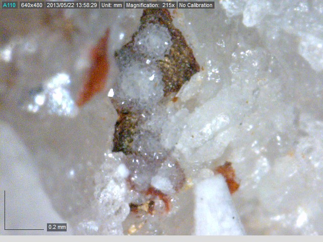 Yanomamite Locality: Mangabeira deposit, Monte Alegre de Goiás, Goiás, Brazil Group of Yanomamite crystals.